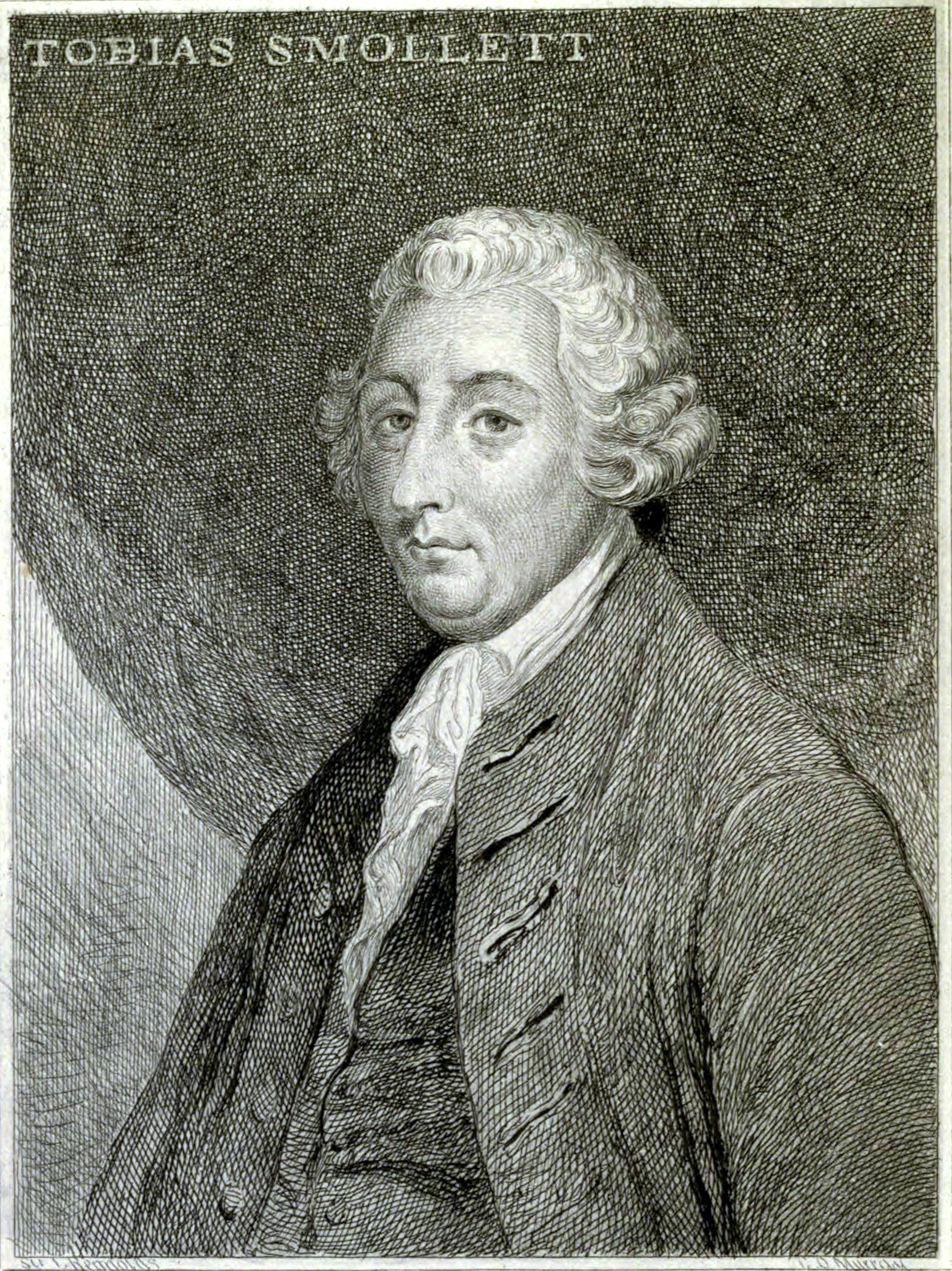 Portrait in The adventures of Sir Launcelot Greaves ; and, The history and adventures of an atom.